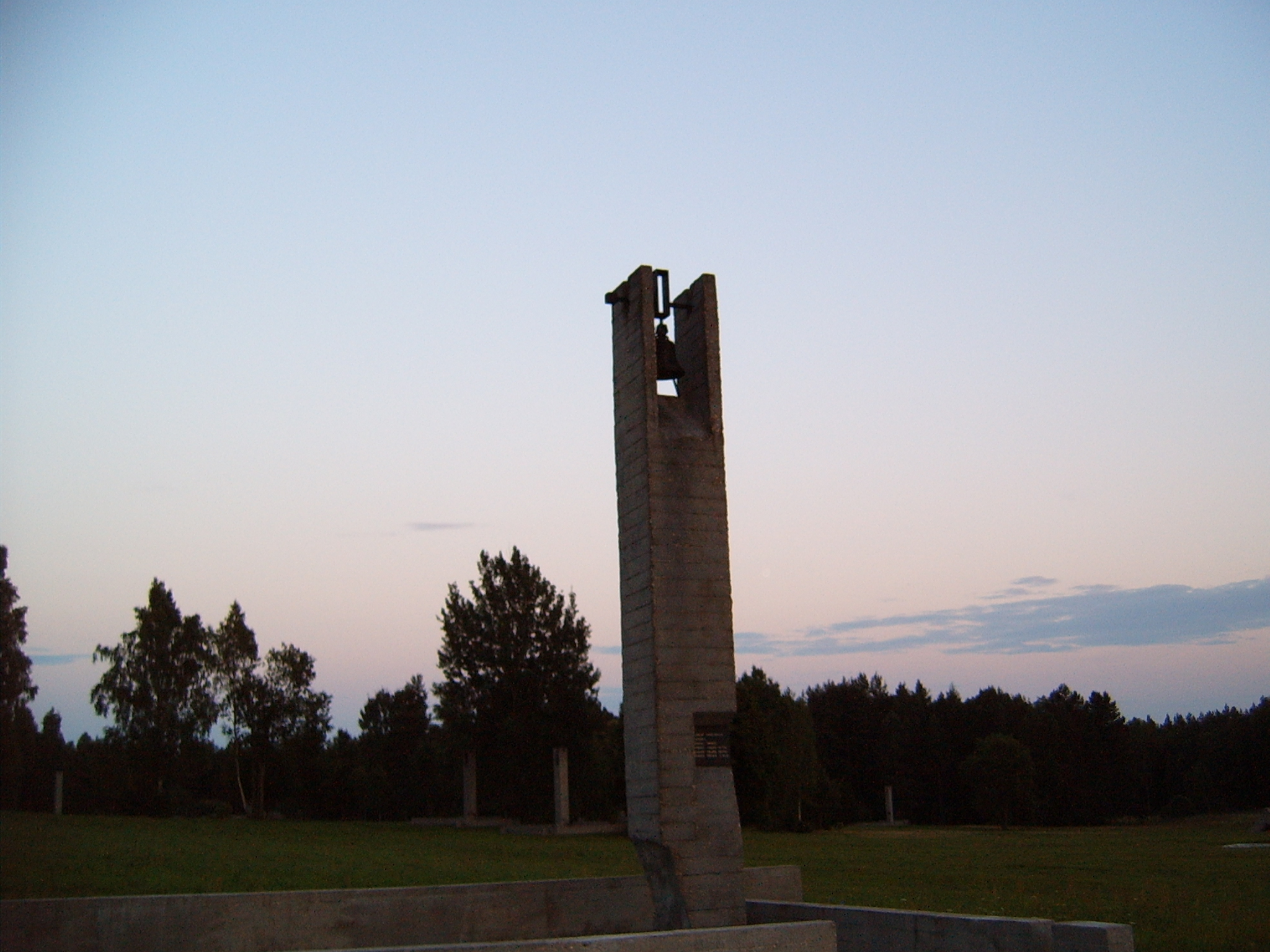 Hatyn, Belarus